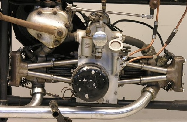 1932 Douglas K 32 350 cc OHV engine